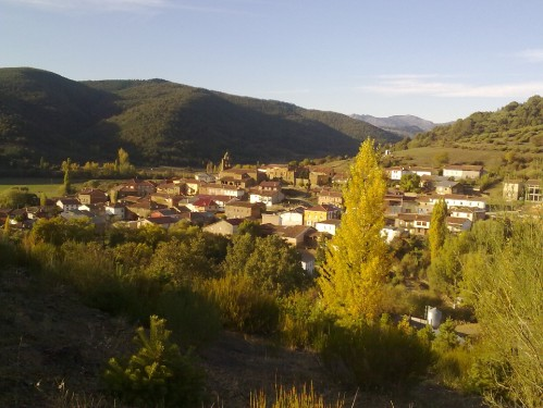 Photo of Valderrueda, town localised in León